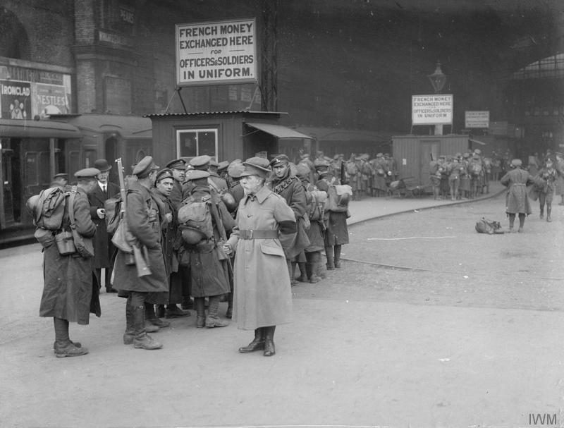 The British Army on the Home Front, 1914-1918 A volunteer of the National Guard directing British troops arriving home on leave at Victoria Station, London. They all queueing up to the money exchange office.